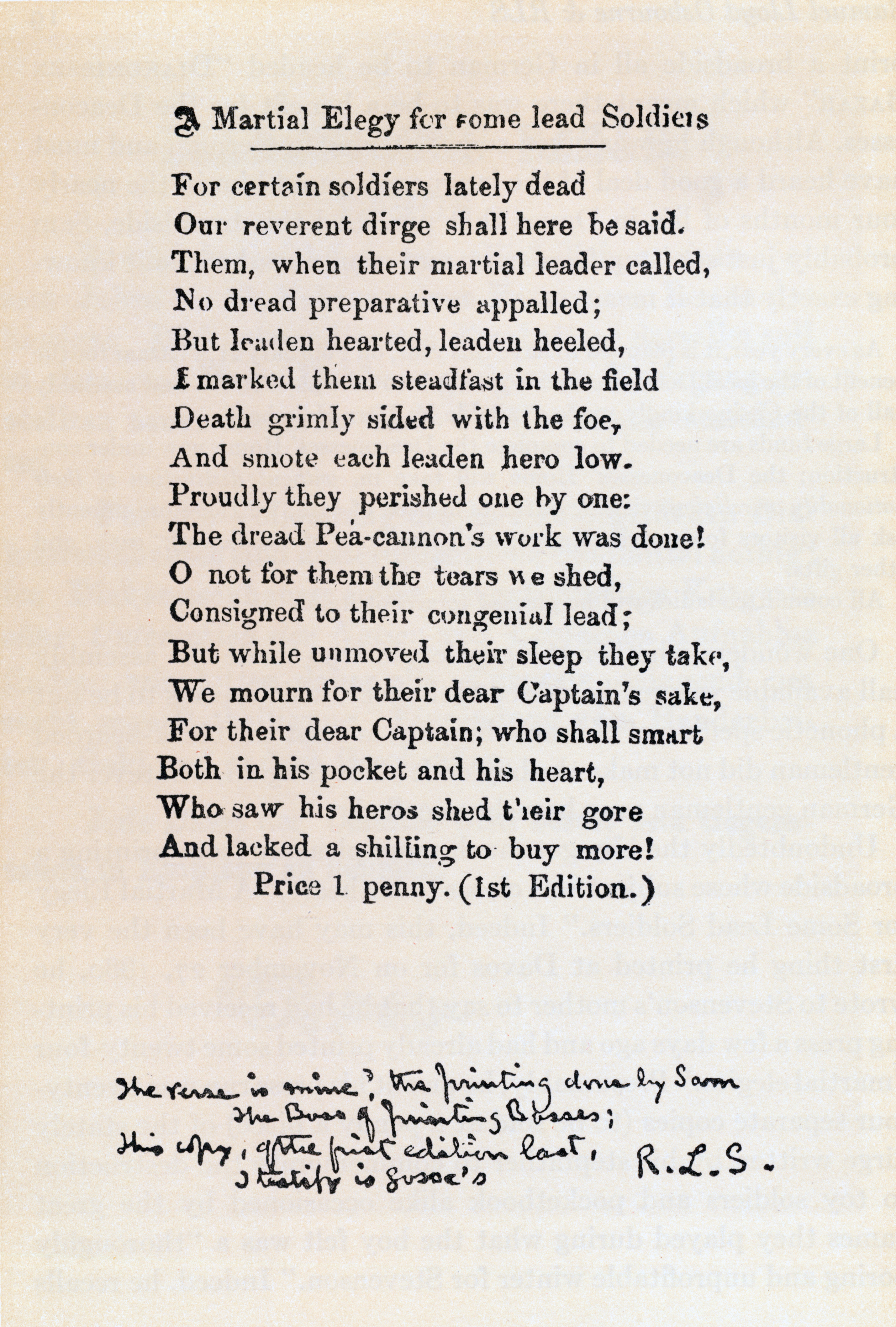 First issue of Martial Elegy for some lead Soldiers, a poem by Robert Louis Stevenson printed and published by Lloyd Osbourne in Davos.